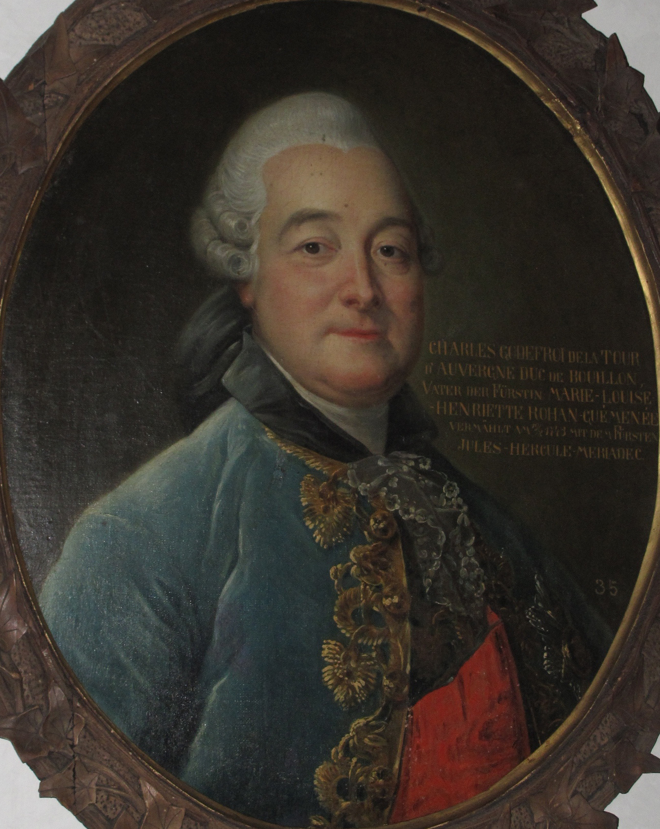 Charles Godefroy de La Tour d'Auvergne, 5th duke of Bouillon (1706-1771)